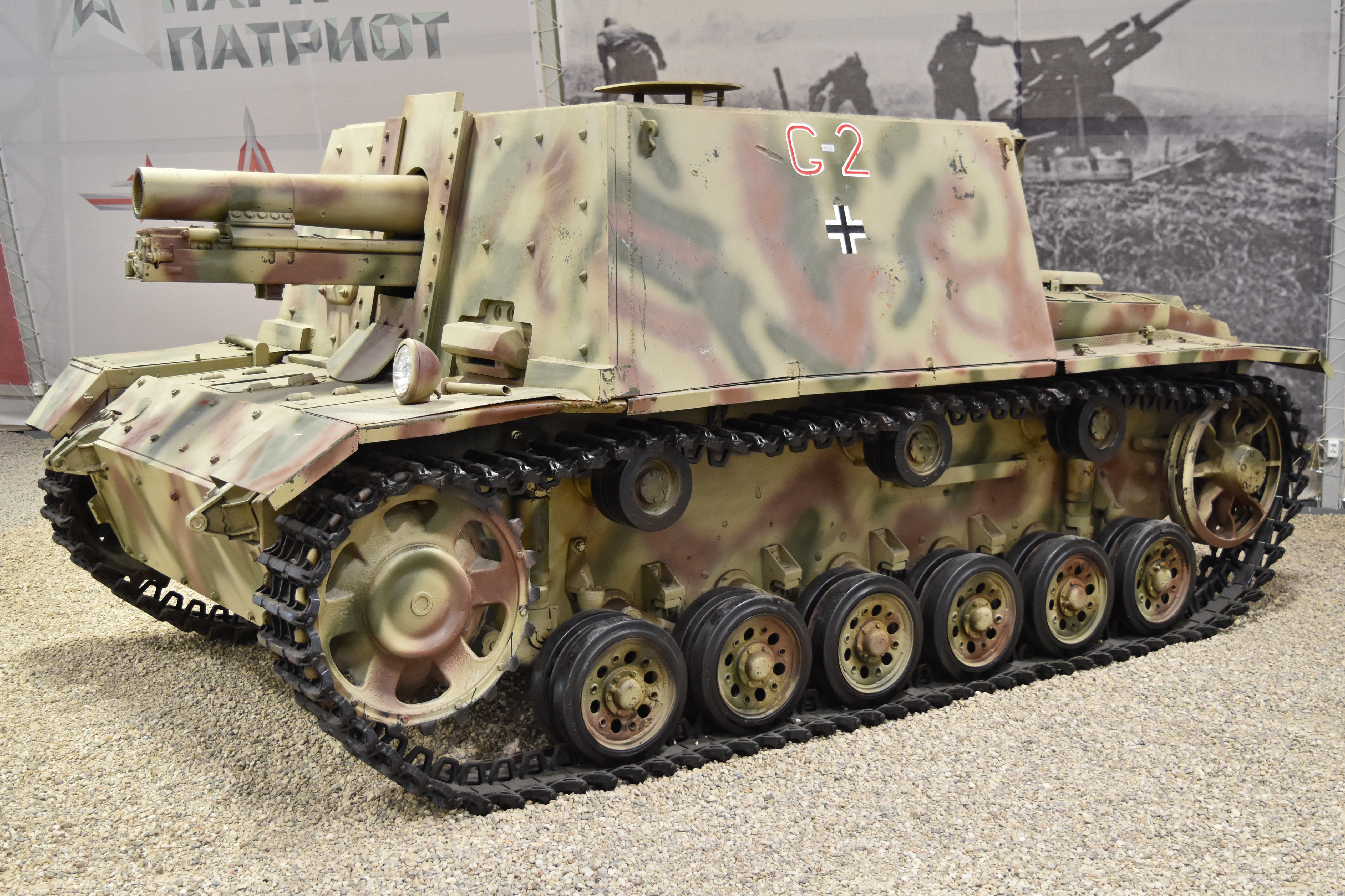 German WW2 era Heavy Assault Gun Manufacturer:- Alkett Built:- 1942 Total production:- 24 Main Armament:- 150mm slG 33/1 Infantry gun Built by mounting the slG 33 infantry gun on to a StuG III chassis, only 24 slG 33B were produced and were intended as heavy infantry. They saw action on the Eastern Front where this sole-surviving example was captured by Soviet troops. Repainted in a period colour scheme, it is now on display in Hall 9 of the Patriot Museum Complex. Park Patriot, Kubinka, Moscow Oblast, Russia. 25th August 2017